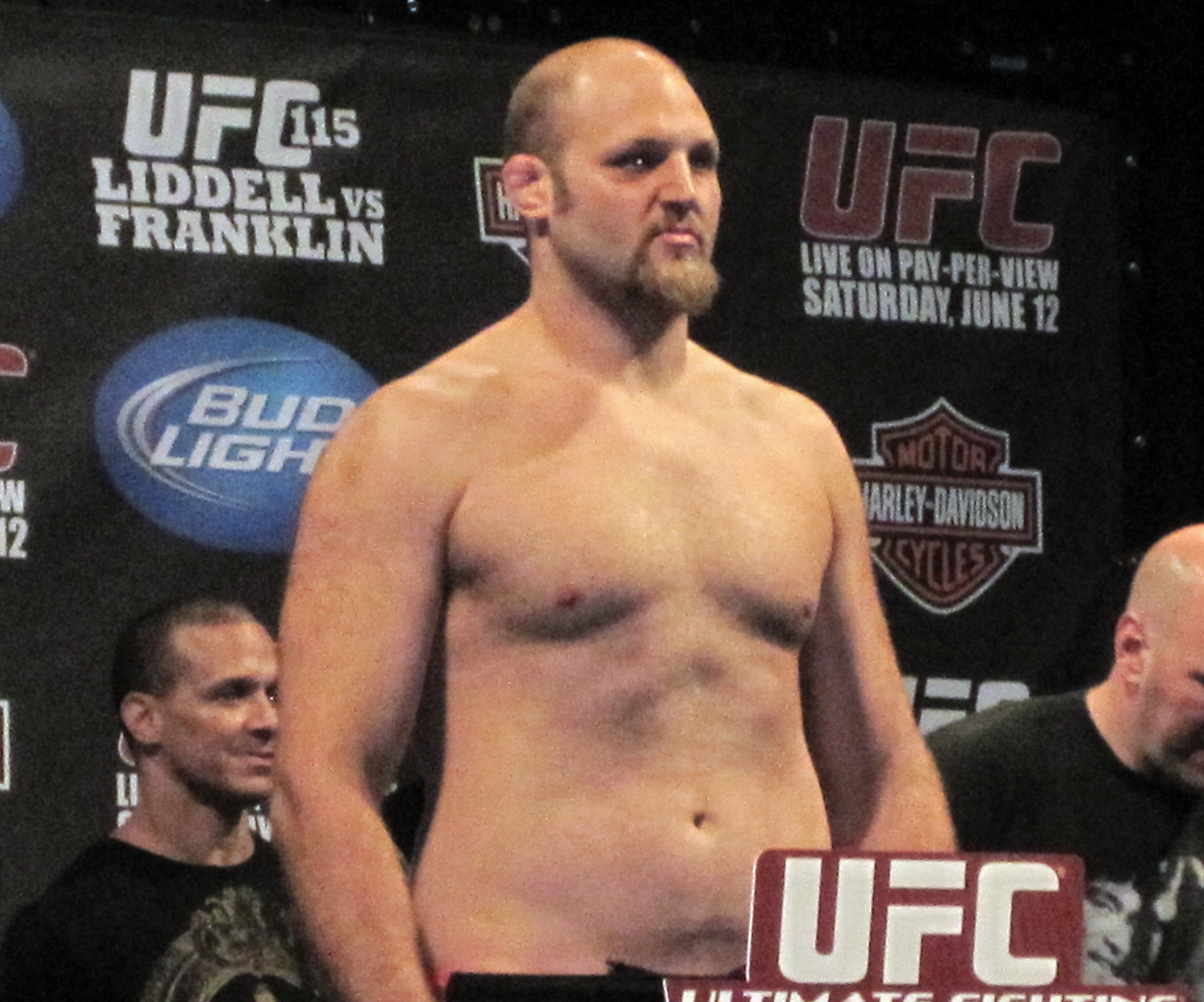 Ben Rothwell weighs in for UFC 115.